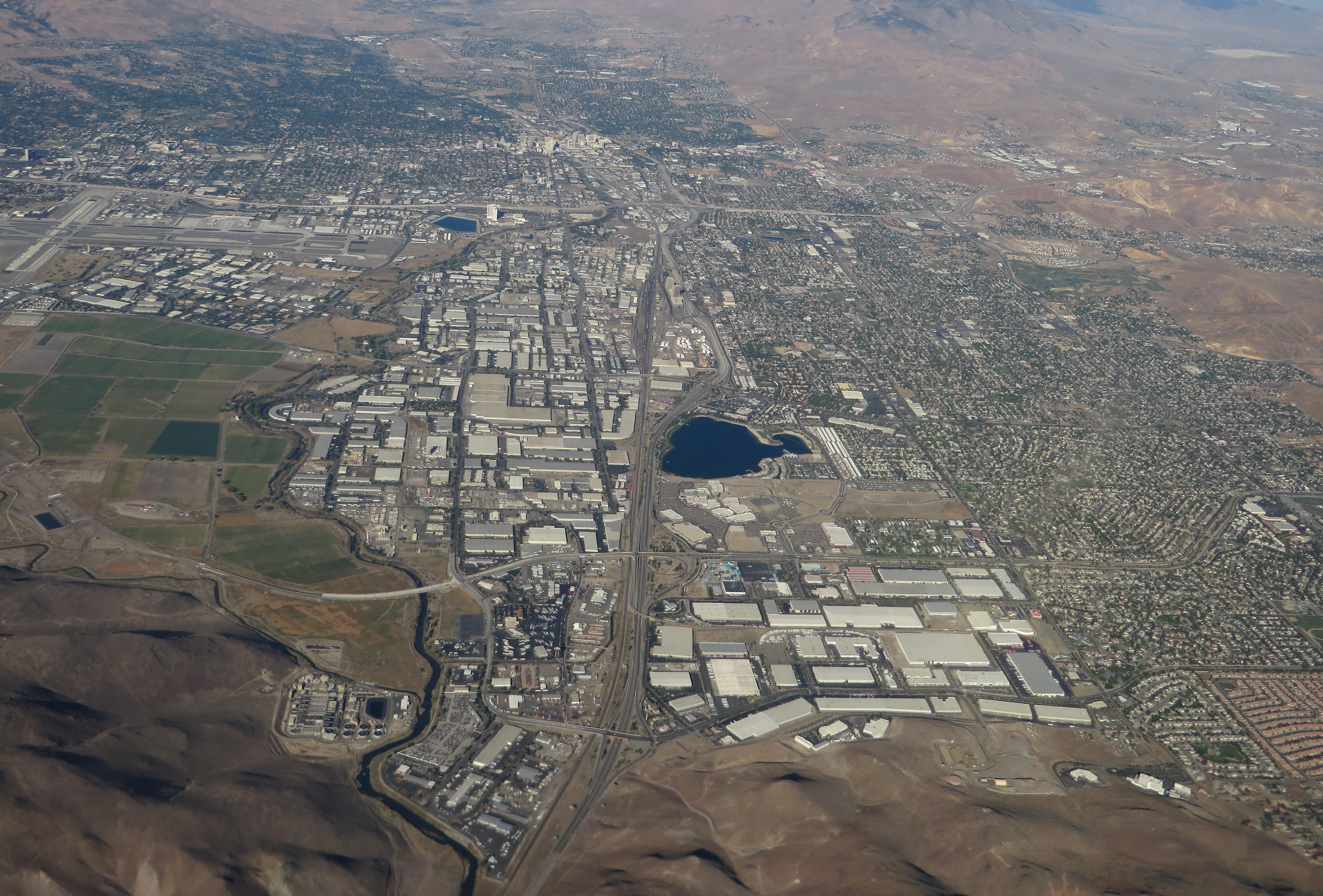 Sparks is a city in Washoe County, Nevada, United States. It was established in 1905 and is located just east of Reno. The 2010 U.S. Census Bureau population count was 90,264. It is the fifth most populous city in Nevada. Sparks is located within the Reno–Sparks metropolitan area. Euro-American settlement of the area began in the early 1850s, and the population density in the area remained very low until 1904 when the Southern Pacific Railroad built a switch yard and maintenance sheds there. The city that sprung up around them was first called Harriman after E. H. Harriman, president of the Southern Pacific. The city was quickly renamed Sparks after John Sparks, the governor of Nevada at that time. Sparks remained a small town until the 1950s, when economic growth in Reno triggered a housing boom north of the railroad in the area of Sparks. During the 1970s, the area south of the railroad started to fill up with warehouses and light industry. In 1984 the tower for John Ascuaga's Nugget Casino Resort was finished, giving Sparks its first, and currently only, high-rise casino. In 1996, the redevelopment effort of the B Street business district across from the Nugget that started in the early 1980s took a step forward with the opening of a multi-screen movie complex and the construction of a plaza area. This area, now known as Victorian Square, is a pedestrian-friendly district that hosts many open-air events. Cultural events include the Best in the West Nugget Rib Cook-off. Tourist attractions include the Great Basin Brewing Company, and John Ascuaga's Nugget Casino Resort. Sparks Marina Park was established on a naturally occurring aquifer in Sparks. Aquatic activities include windsurfing, sailing, swimming, scuba diving, fishing and boating. The surrounding park includes walking paths, a dog park, volleyball courts, playgrounds, picnic areas, showers, and a concession stand.